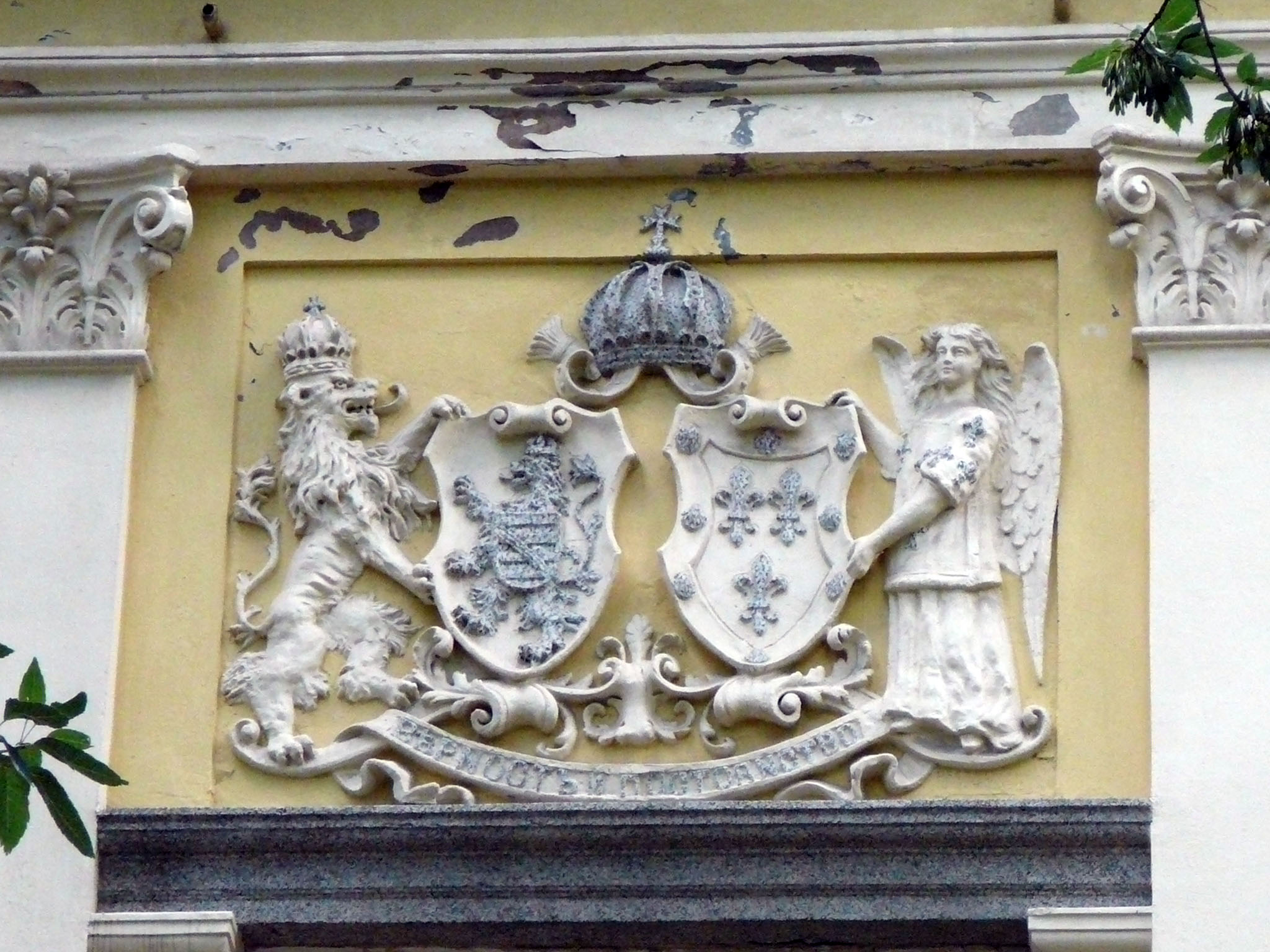 National Art Gallery of Bulgaria, detail